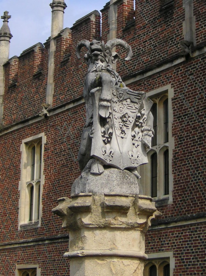 UK, Hampton Court Palace, one of the Twelve Heraldic Beasts that guard the entrance, the Yale of Beaufort.